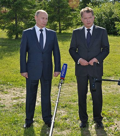 Joint news conference President of Russia Vladimir Putin and President of Finland Sauli Niinistö.